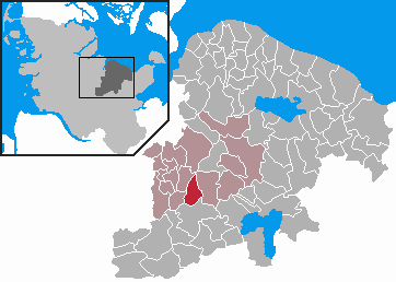 This map shows the area of the Gemeinde (municipality) Löptin in the Kreis (district) Plön, Schleswig-Holstein, Germany.